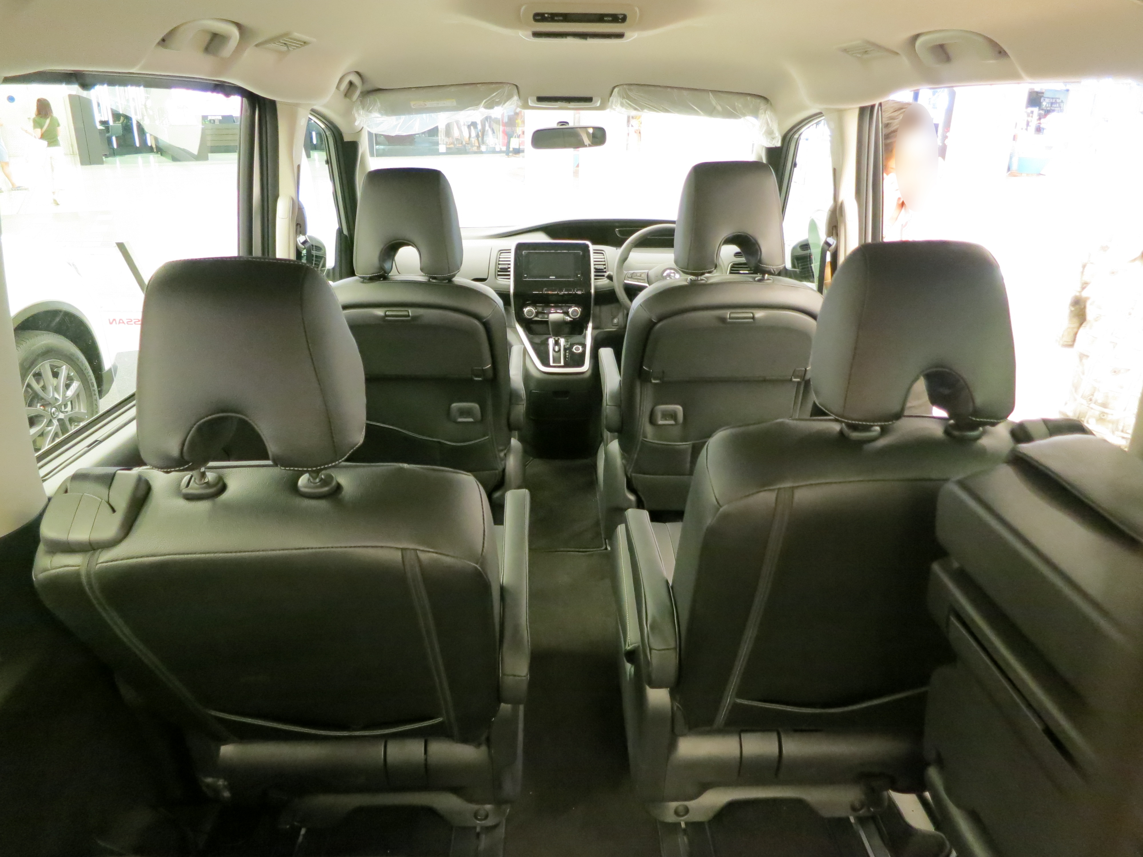 Taken at Queensbay Mall, Penang, Malaysia on the 21st of June 2019 of a 2018 Nissan Serena 2.0 Highway Star.